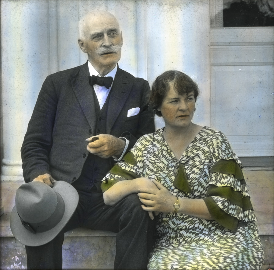 Håndkolorert lysbilde. Portrett av forfatteren Knut Hamsun og hans kone Marie Hamsun.